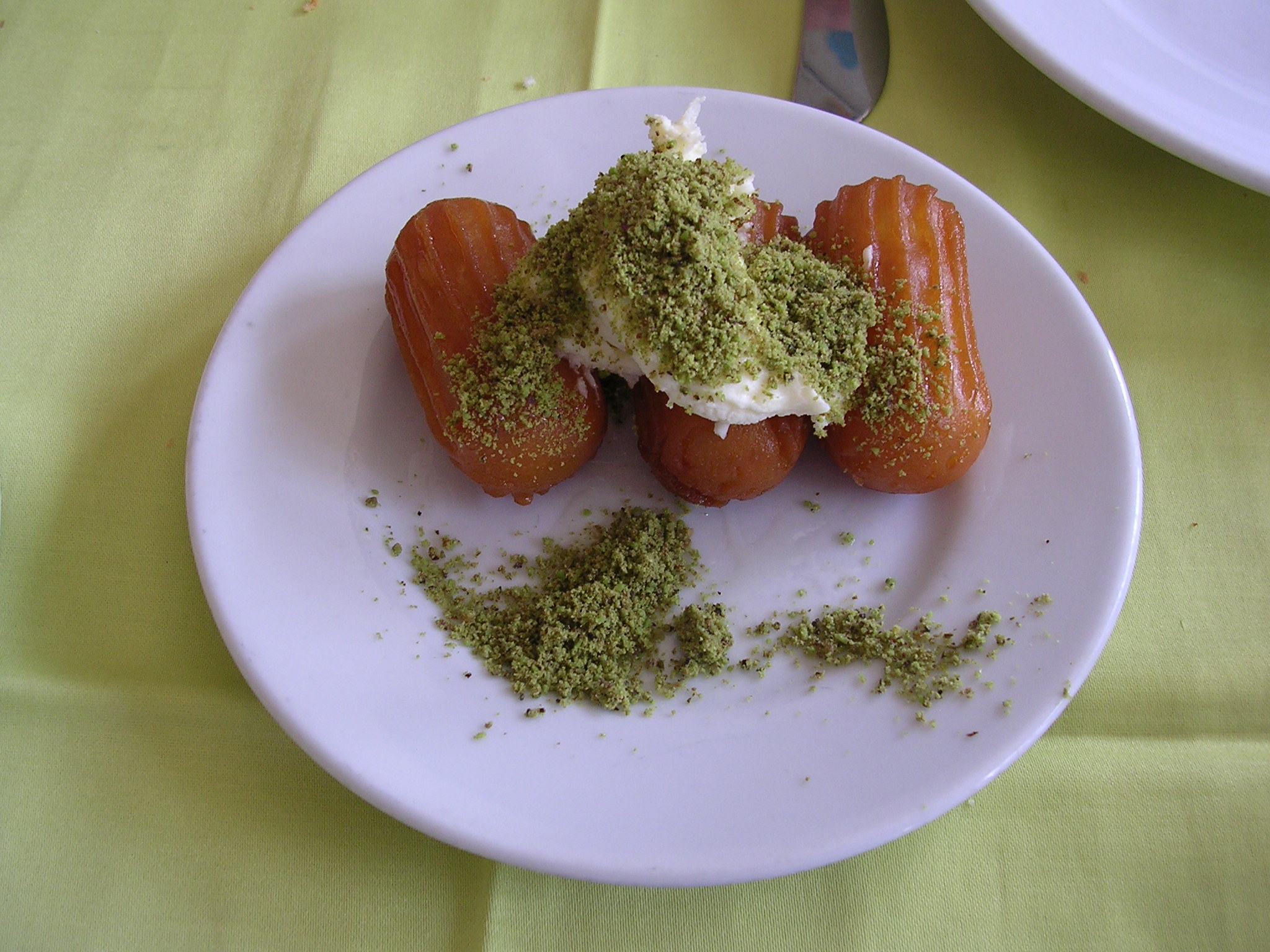 Tulumba with kaymak (cream) and pistachio from Istanbul, Turkey. Date: November 27, 2006. Photo by balavenise on Flickr. Attribution required